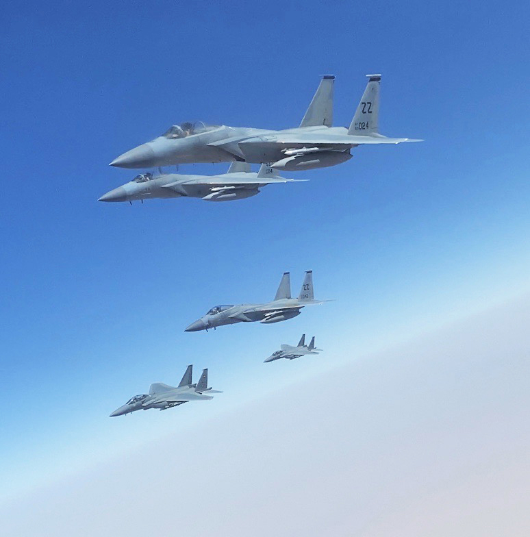 F-15C fighter jets from the 44th Expeditionary Fighter Squadron, Prince Sultan Air Base, Kingdom of Saudi Arabia, fly in formation with F-15SA Royal Saudi Air Force jets from 6th Squadron, King Khalid Air Base, Kingdom of Saudi Arabia during an integrated sortie flight over Saudi airspace, 25 June 2020. The integrated sorties allow U.S. and RSAF pilots to famiiliaraize with communications and mission planning procedures. It also allows them to maintain readiness for longer mission capabilities.